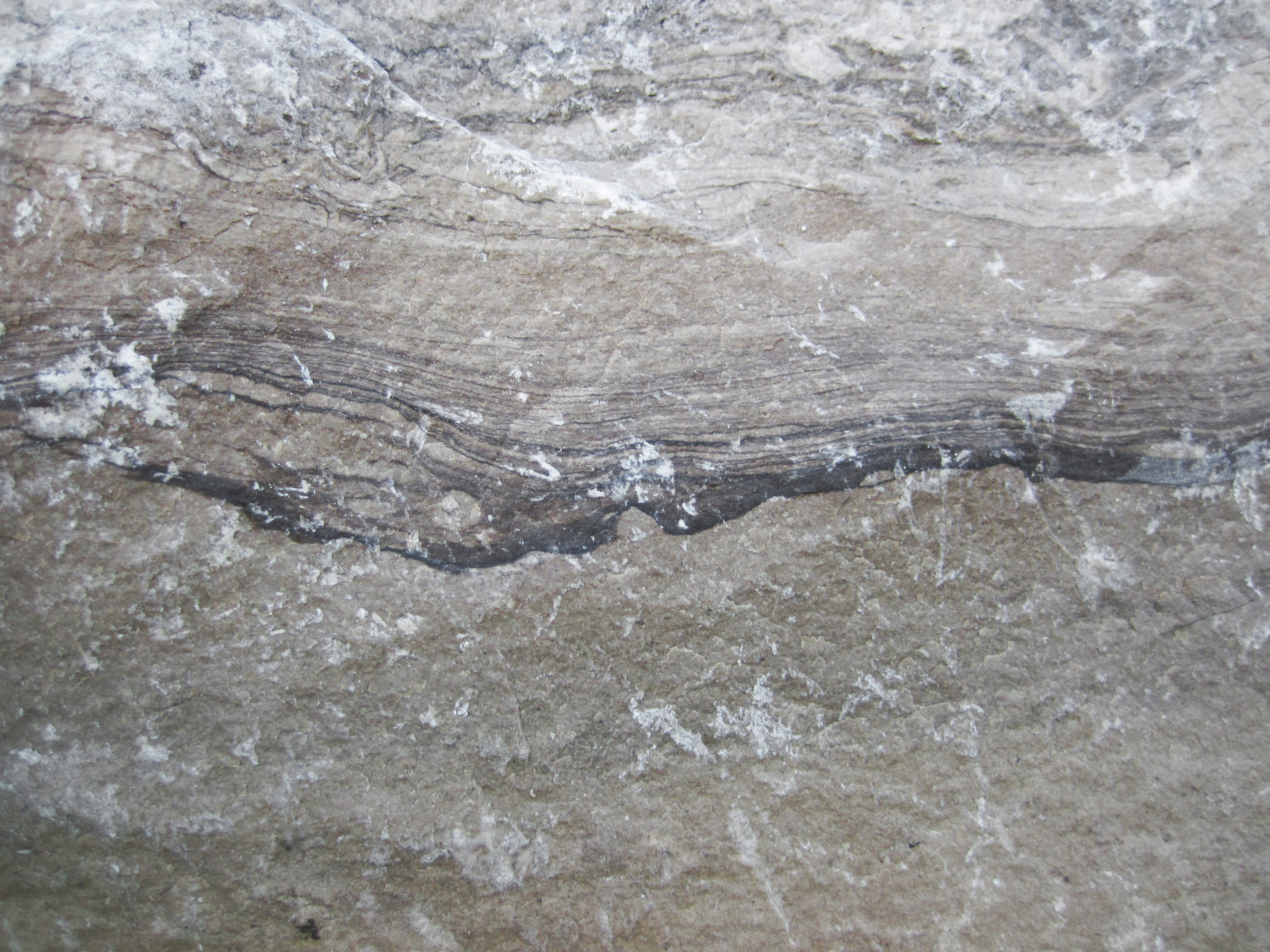 Finely-laminated dolostone in the Devonian of Ohio, USA. This is part of a large, loose block at an active quarry in far-northwestern Ohio. We were forbidden from closely approaching the walls. Rock piles on the quarry floor were available for close examination and mineral collecting. This specimen is from the Lucas Dolomite of the Detroit River Group. The Lucas appears to consist of both dolostone and limestone. Finely-laminated, brown dolostone is a common lithology in this unit. Lack of stratigraphic control in the loose quarry blocks makes additional, specific lithologic assessments difficult. Stylolites are also present in the Lucas. The finely laminated portions of the Lucas have been identified by other workers as microbial mats. Stratigraphy: Lucas Dolomite, upper Detroit River Group, Middle Devonian Locality: Auglaize Quarry (= Shelly Company, Stoneco's Auglaize Facility), southeast of the town of Junction, northeastern Paulding County, northwestern Ohio, USA (41° 10' 27.83" North latitude, 84° 25' 19.75" West longitude)